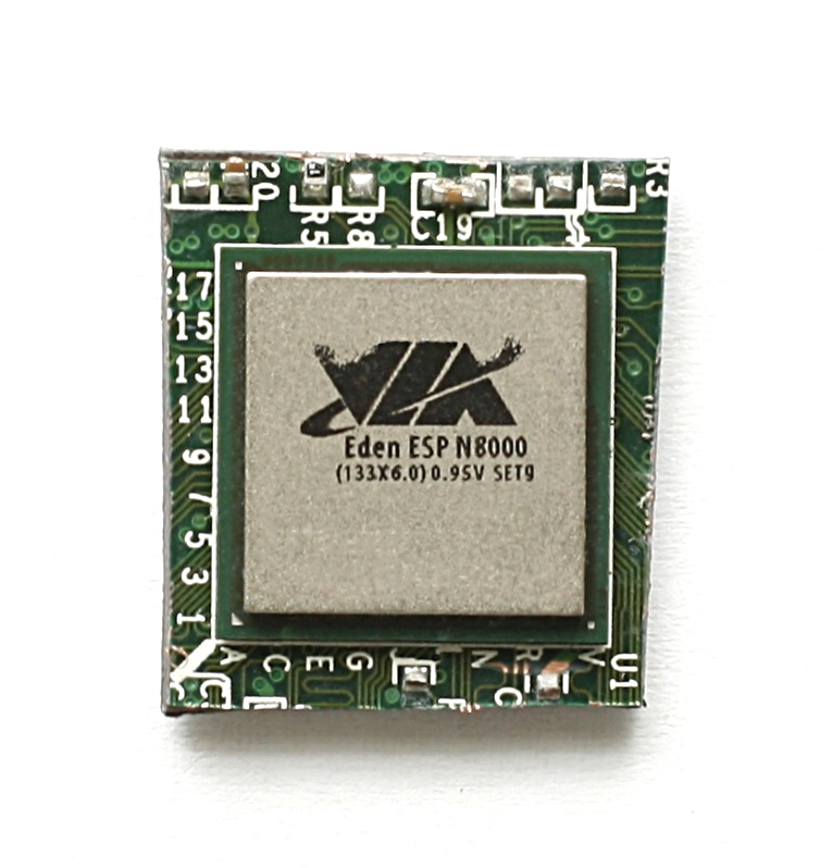 CPU VIA Eden ESP N8000